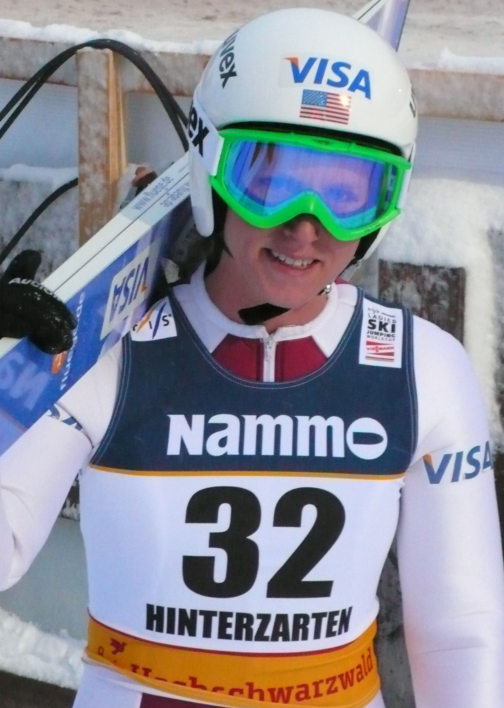 Alissa Johnson